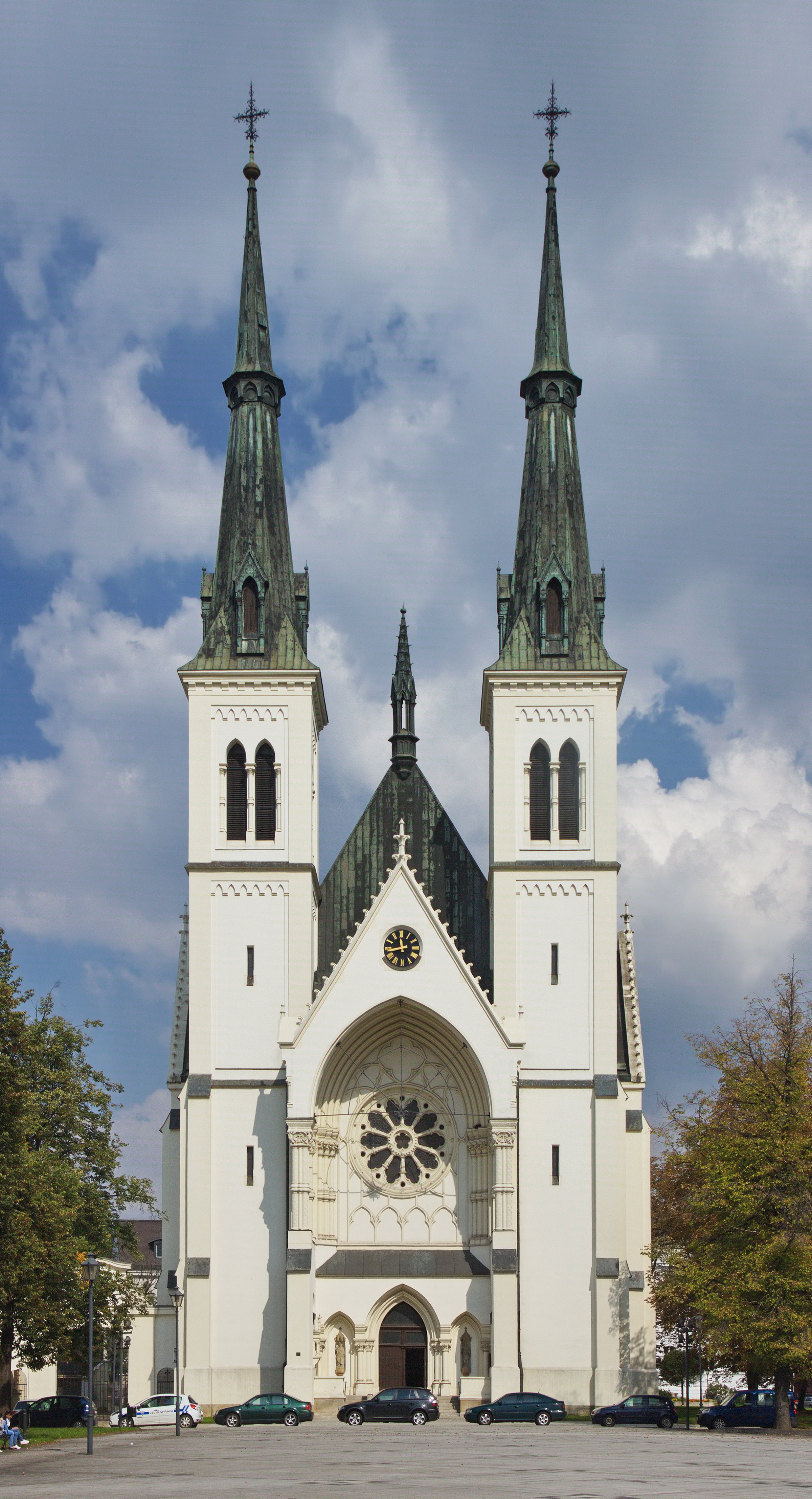 Church of the Immaculate Conception, Přívoz, náměstí Svatopluka Čecha, Ostrava. Moravian-Silesian Region, Czech Republic. Ta ilustracja pokazuje chroniony obiekt zabytkowy w Republice Czeskiej o numerze 23371/8-2448. Památkový katalog MonumNet MIS hledat obrázky hledat seznamy